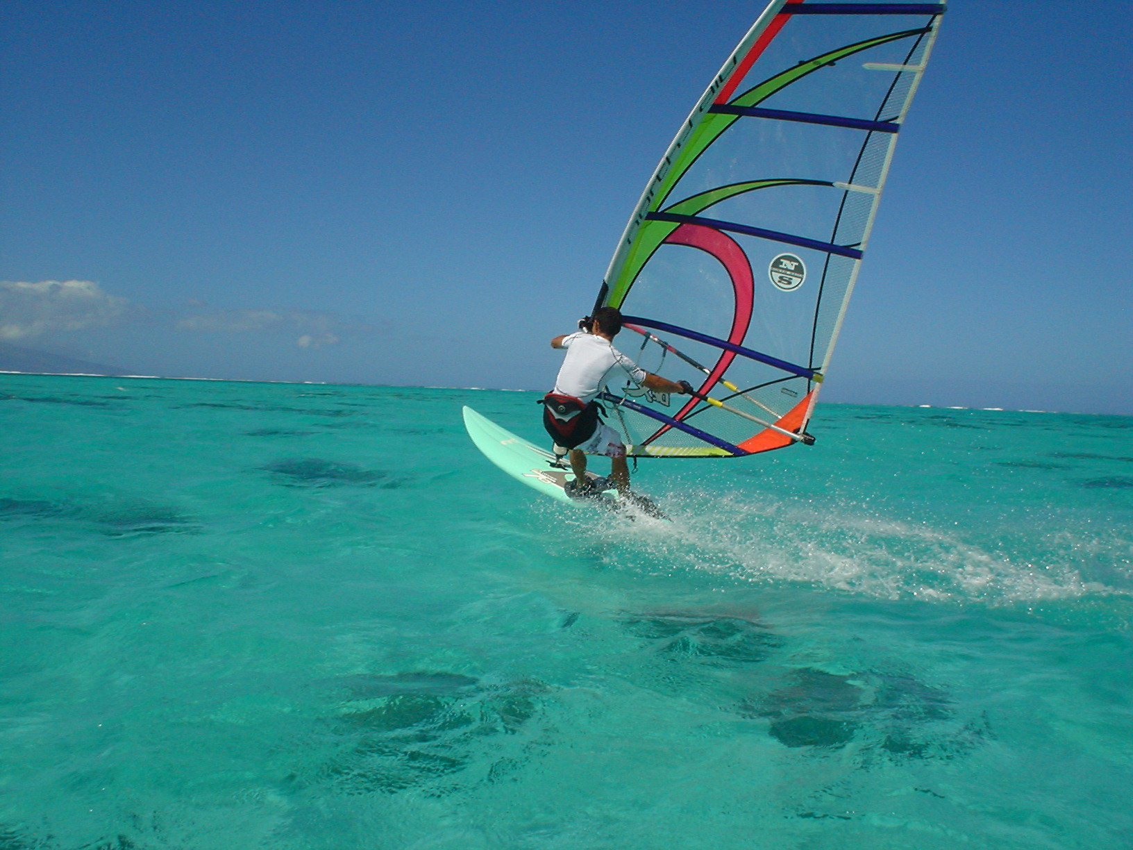 A windsurfer sailing a north sails sail on a Mistral board